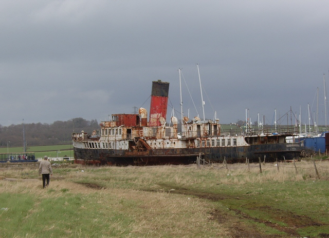 Paddle steamer "Ryde" The hulk of the paddle steamer Ryde at the Island Harbour Marina on the River Medina between Newport and East Cowes. Launched in 1937 and now abandoned, she operated ferry services between Portsmouth and Ryde until the 1960s.